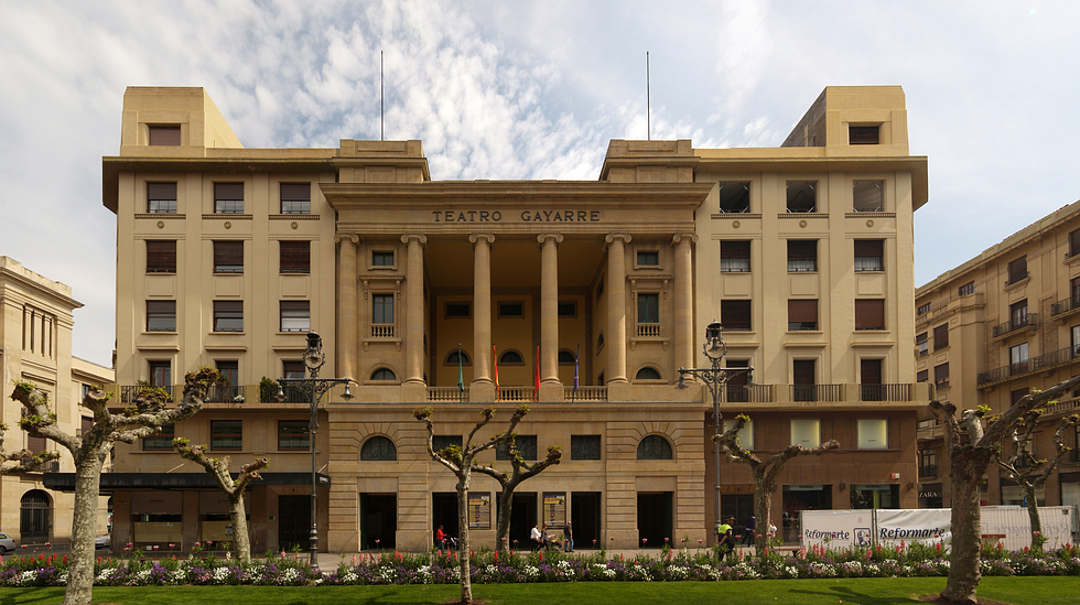 Teatro Gayarre, Pamplona. Stitch of 4 vertical images.